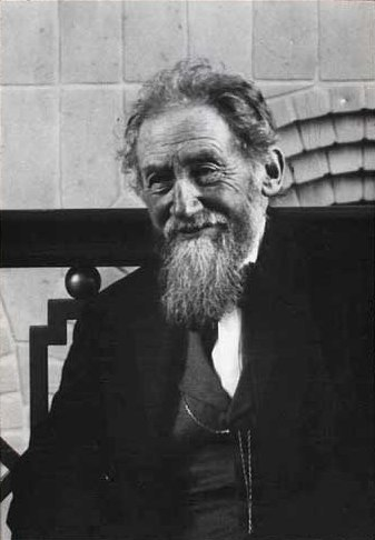 Danish architect Peder Vilhelm Jensen Klint (1853-1930), who designed Grundtvig's Church